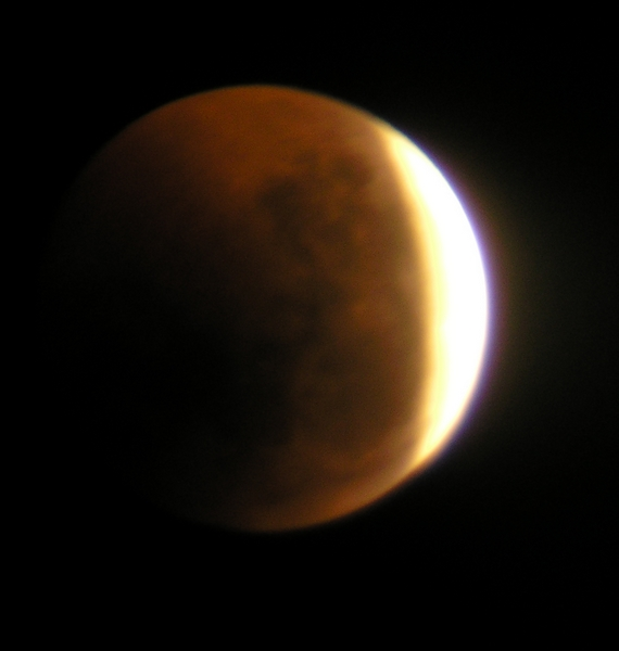 I've taken this by a simple digital camera on the night mode located behind a simple binocular and fixed by books so don't expect miracles on here. :)